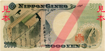 Series D 2000 Yen Bank of Japan note. Genji Monogatari Emaki (The Tale of Genji Scroll) and Murasaki Shikibu. First issued in 2000. 154mm x 76mm.